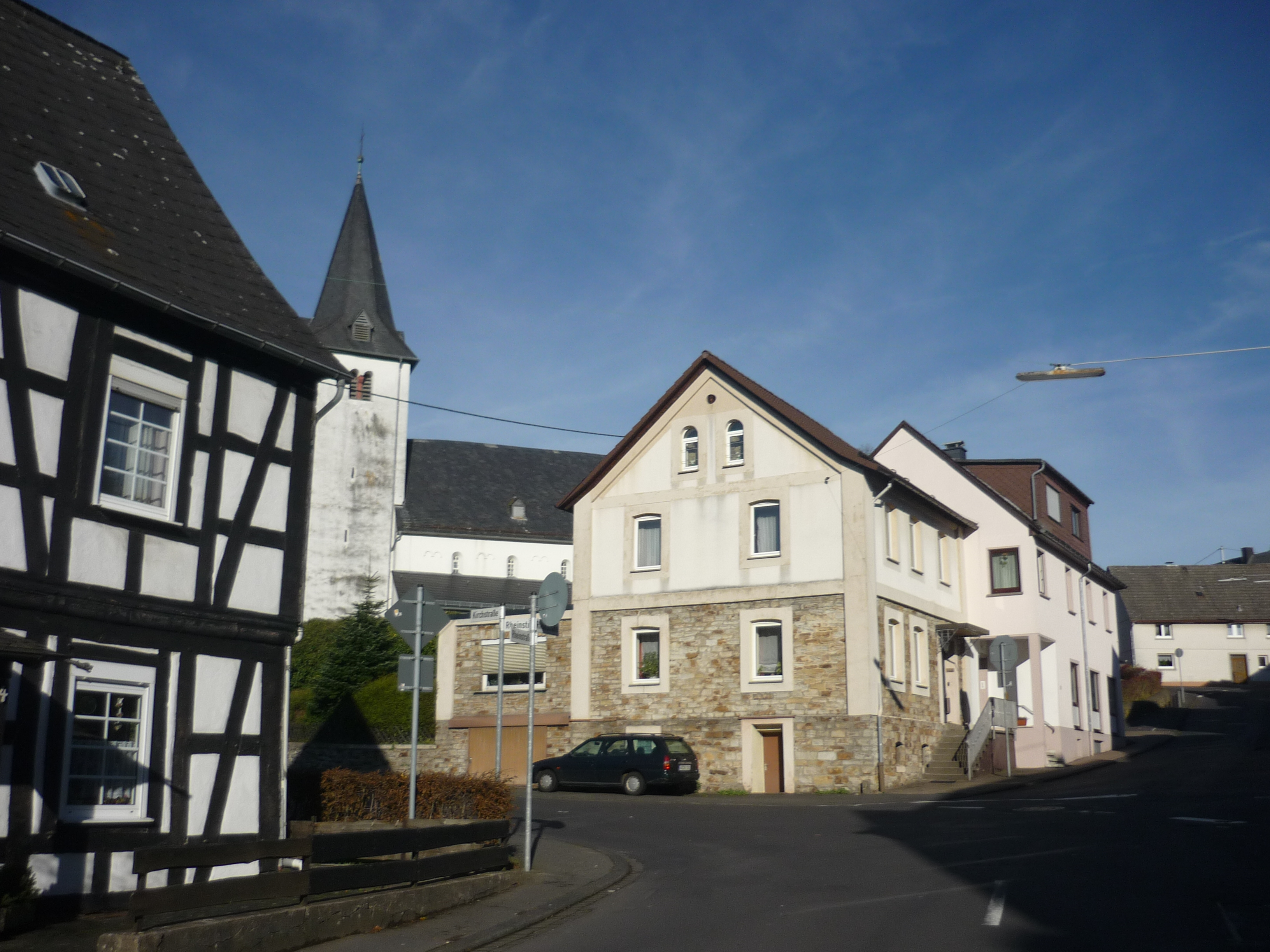 Altstadt hachenburg center